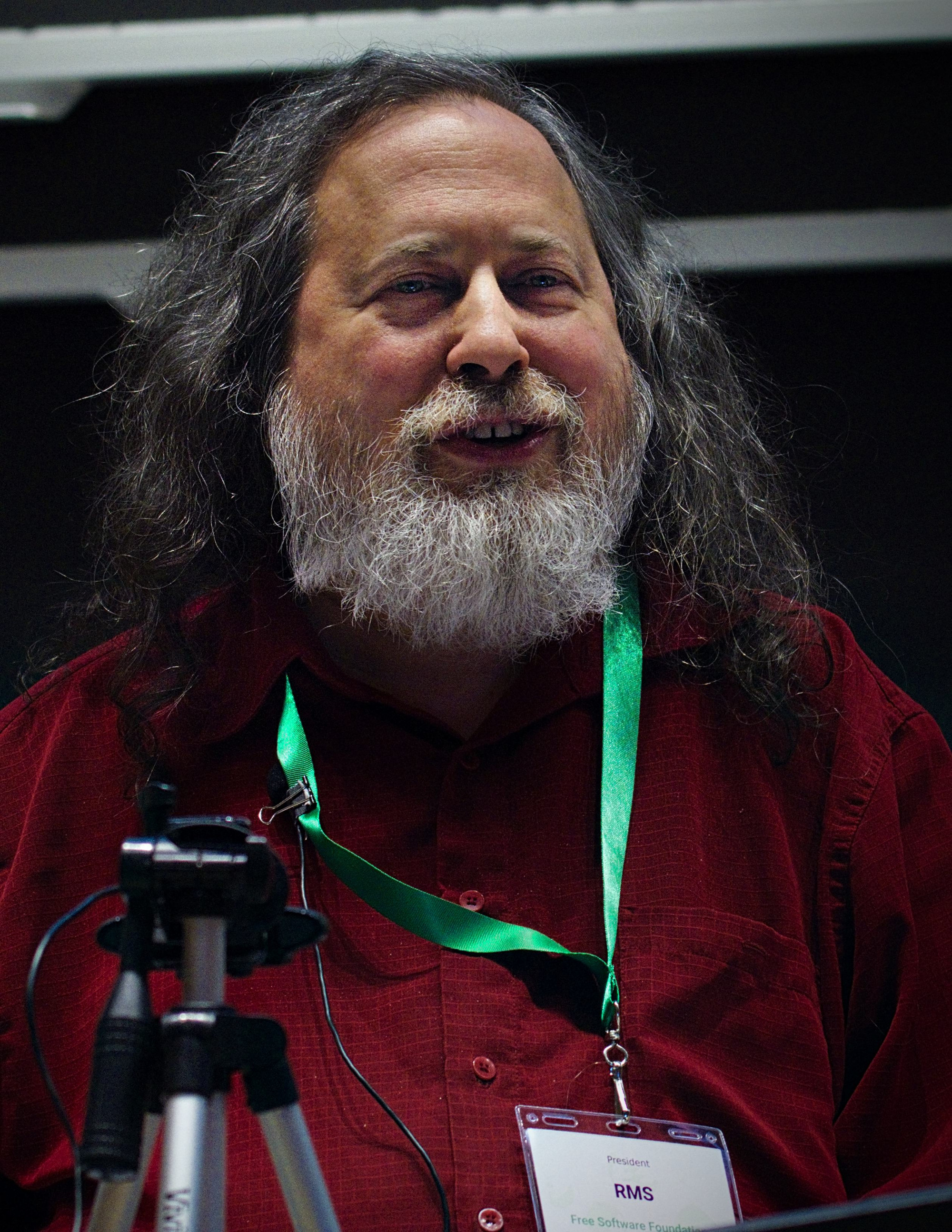 Richard Stallman, at LibrePlanet 2019